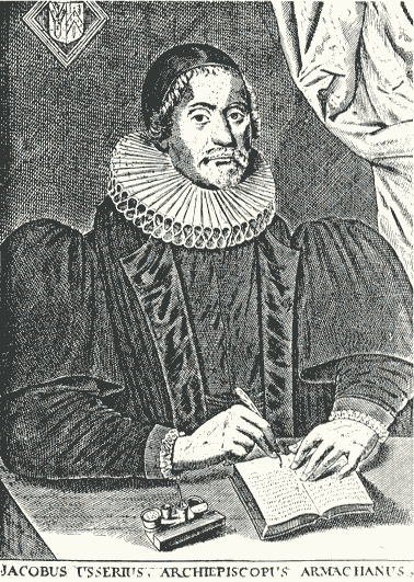 Jacobus Ussher, Irish archbishop born in Dublin 1581, died 1656. Around 1603 became chancellor of St. Patrick's, also chosen Professor of divinity of the University of Dublin, an office he held for thirteen years. In 1620, Ussher was made bishop of Meath, in 1623 privy counselor for Ireland and in 1625 made archbishop of Armagh. Usher moved from Ireland to England in 1640. Source: Jacobus Ussher